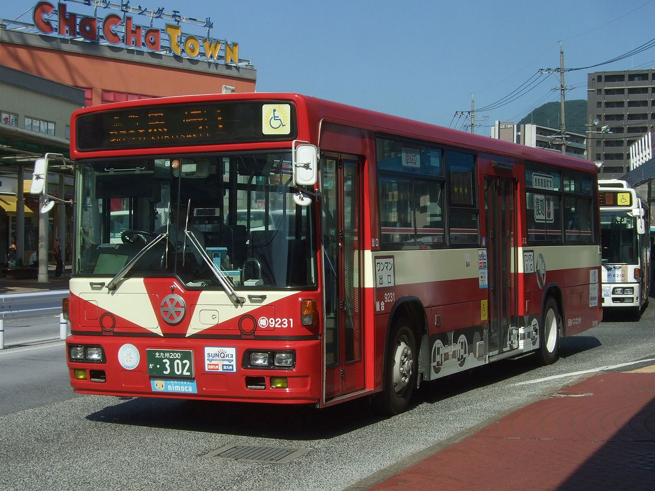 Company:Nishitetsu Bus Kitakyushu Belongs to:Yahata Depot Use:transit bus Car license:FOK200 KA 302 Code:9231 Chassis manufacturer:Nissan Diesel Type:Space_Runner Coachbuilder:Nishinippon Shatai Kogyo Location:in Kokurakita Ward, Kitakyushu City, Fukuoka, Japan.